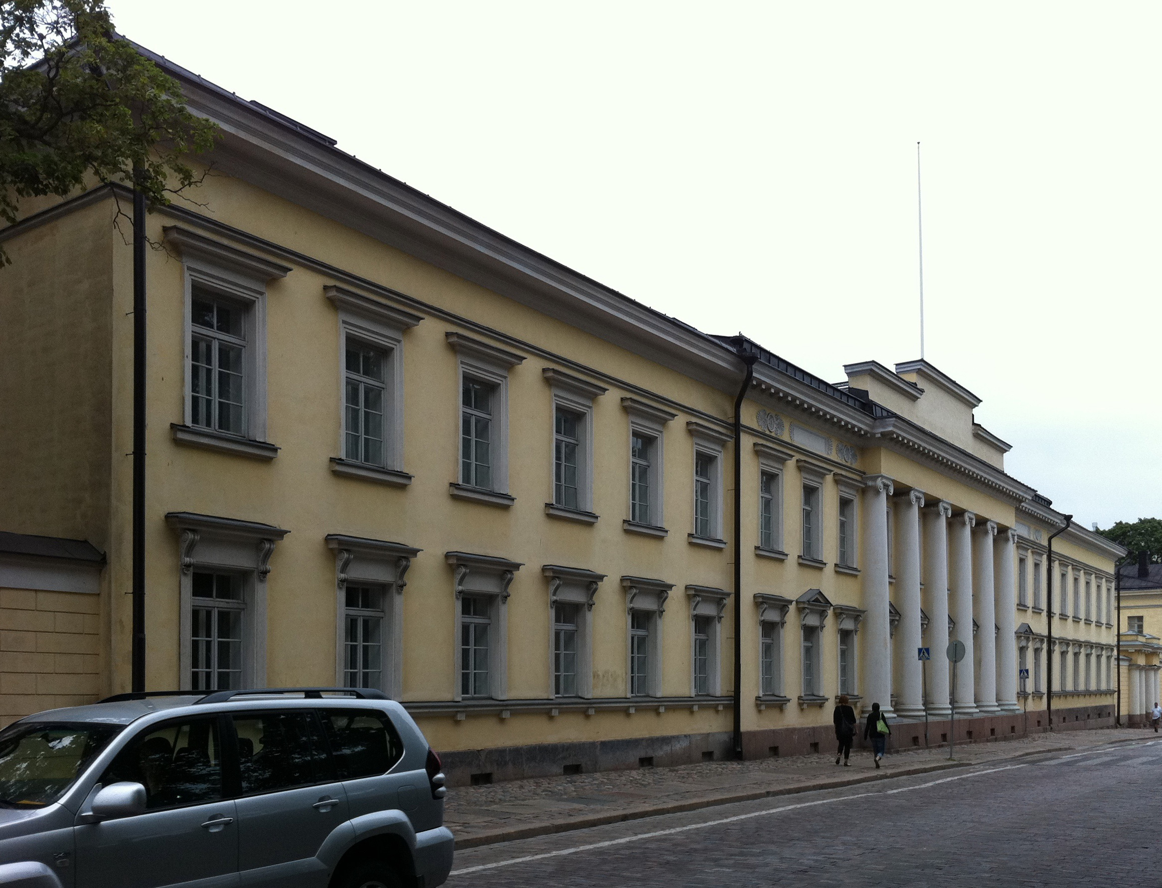 Cantonist School main building, Unioninkatu 38, Helsinki, Carl Ludvig Engel 1821-1823